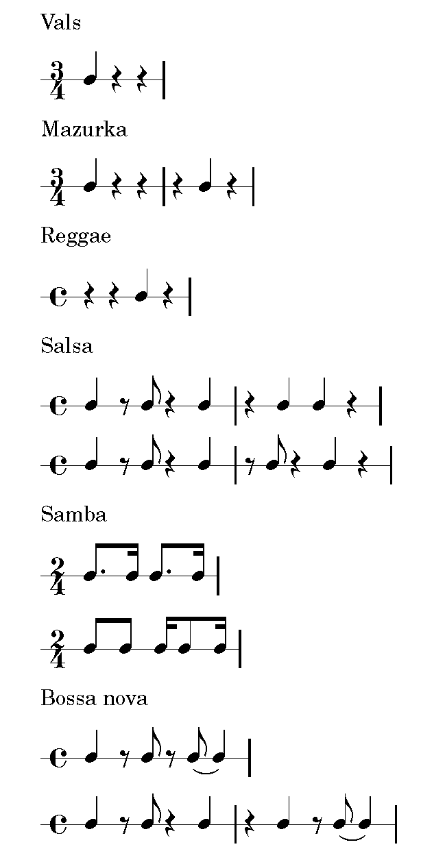 Rhythms on rhythmic staff.